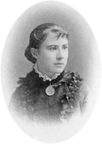 Portrait of Harriet Mary Ford from school yearbook, 1878